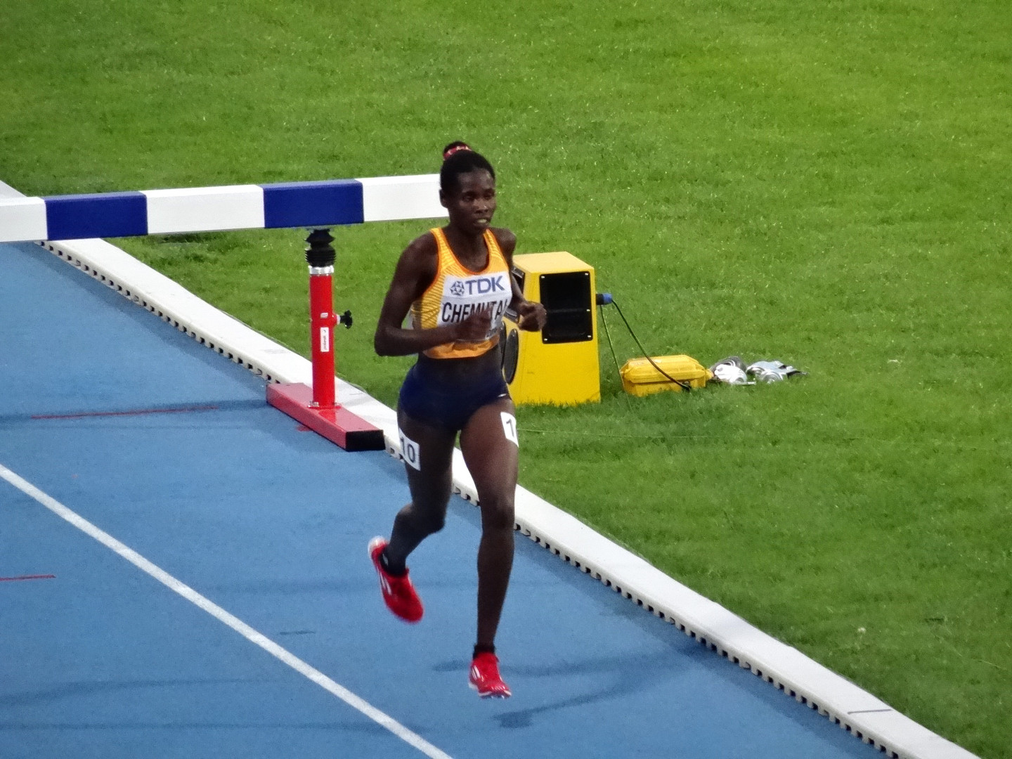 2016 IAAF World U20 Championships in Bydgoszcz, 3000m steeplechase women final